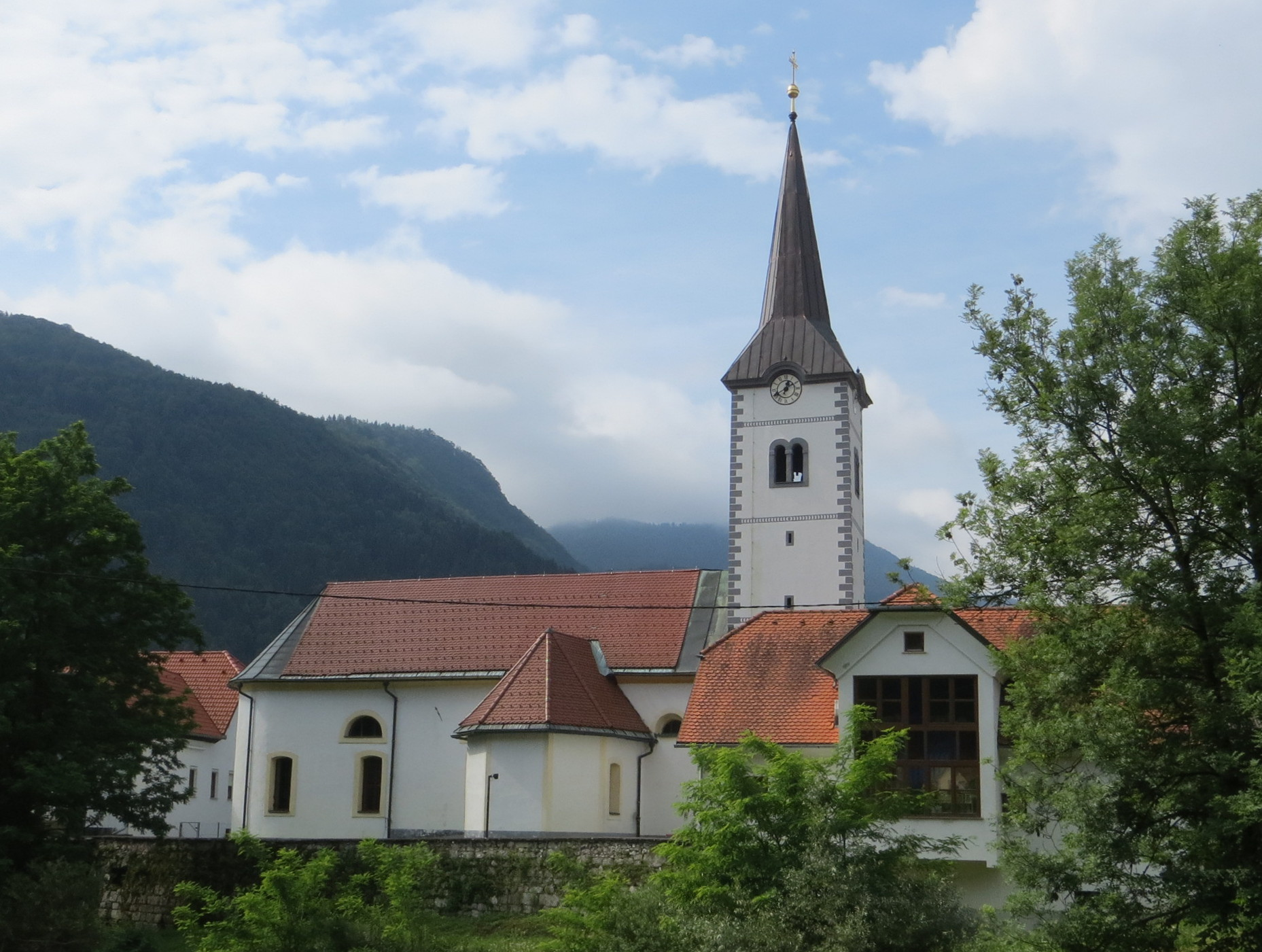 Saint Martin's Chirch in Šmartno ob Dreti, Municipality of Nazarje, Slovenia